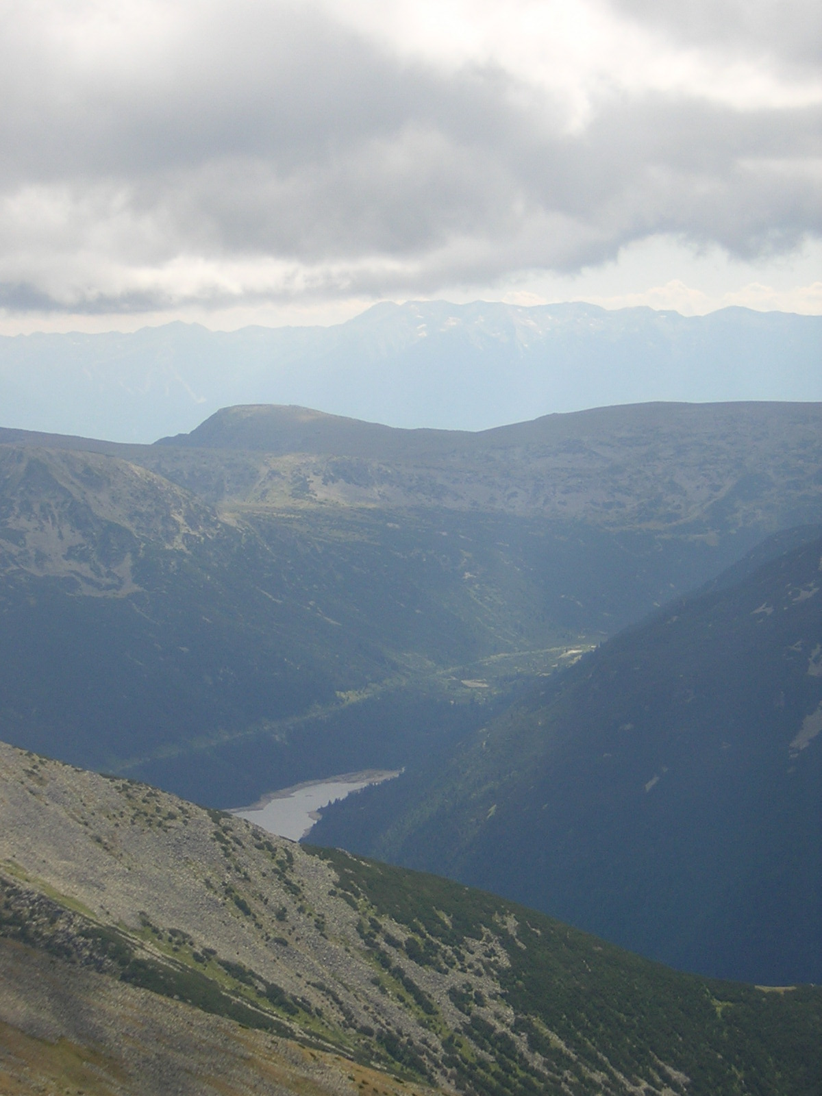 View from peak Musala (Rila mountains) towards Pirin (in the very far background). In the foreground the Beli Iskar valley with the Beli Iskar reservoir.